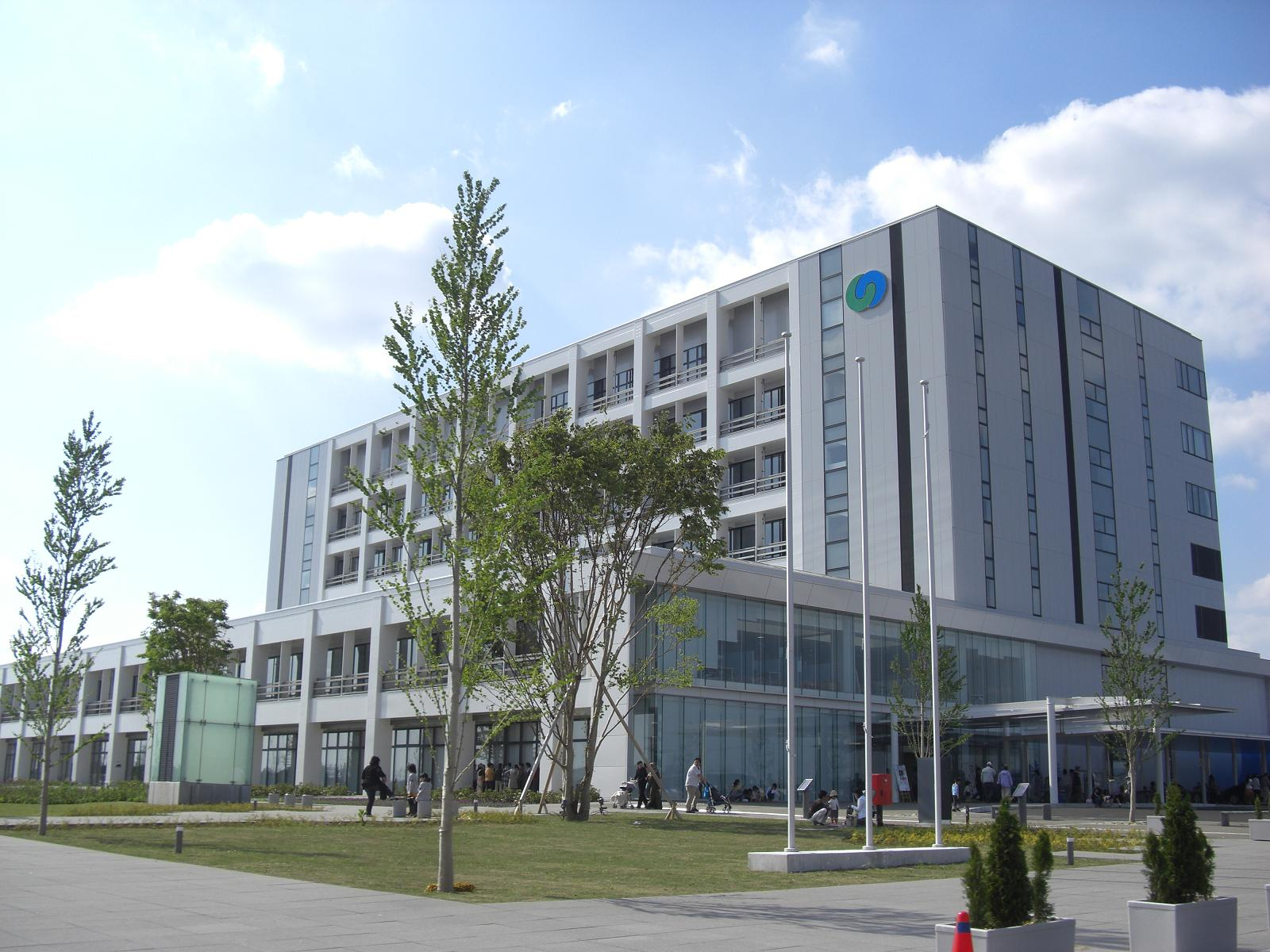 Tsukuba City Hall main building, Ibaraki, Japan.